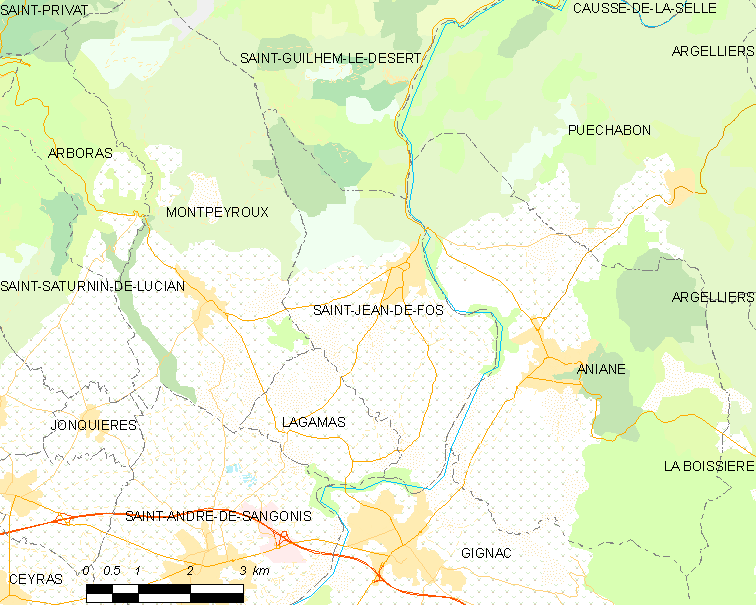 Map commune FR insee code 34267.png - Saint-Jean-de-Fos